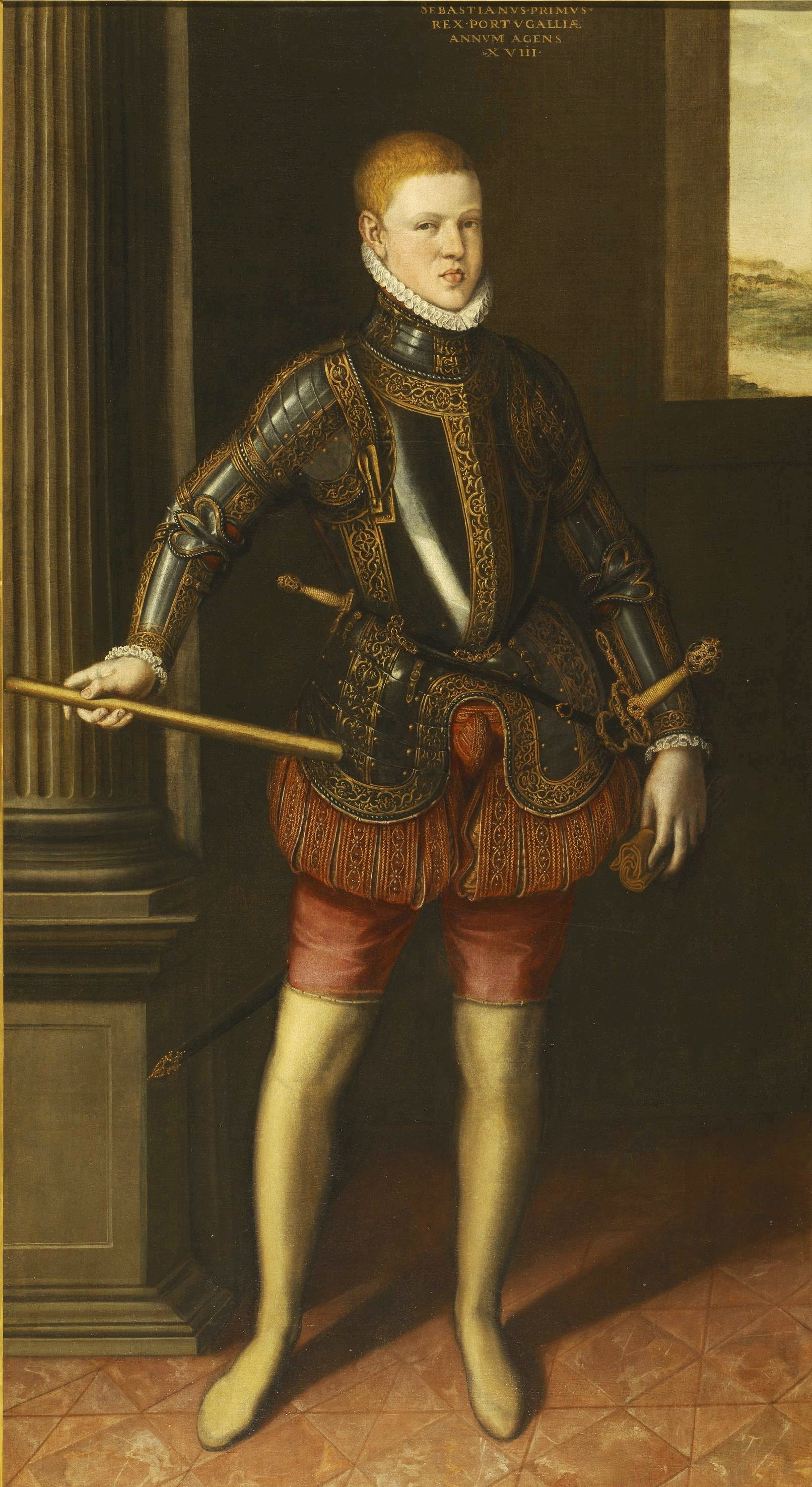 King Sebastian of Portugal (1554-1578).